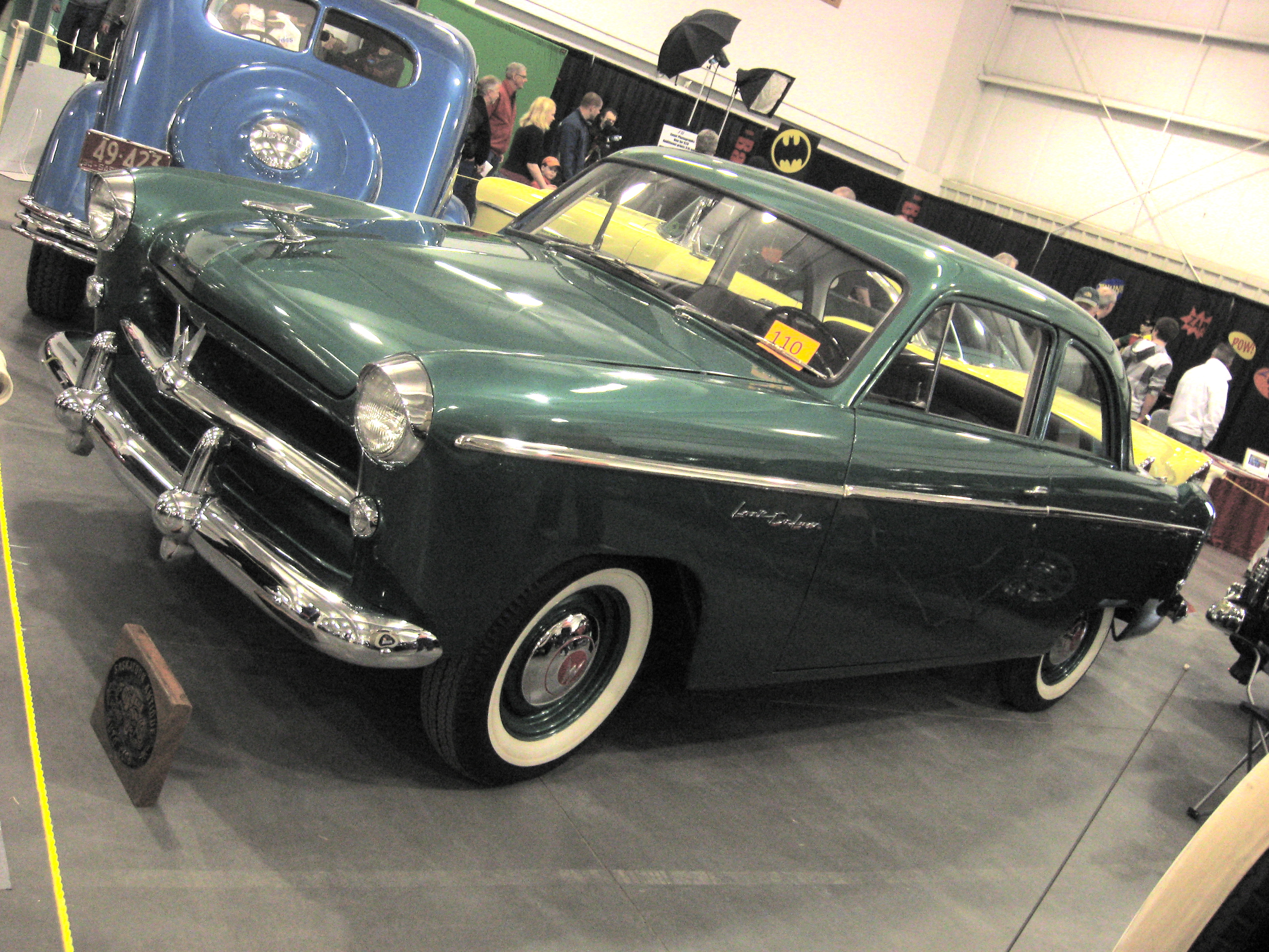 '50s Willys, shot at 50h Anniversary Draggins car show, Praireland Exhibition, Saskatoon, 3 April 2010